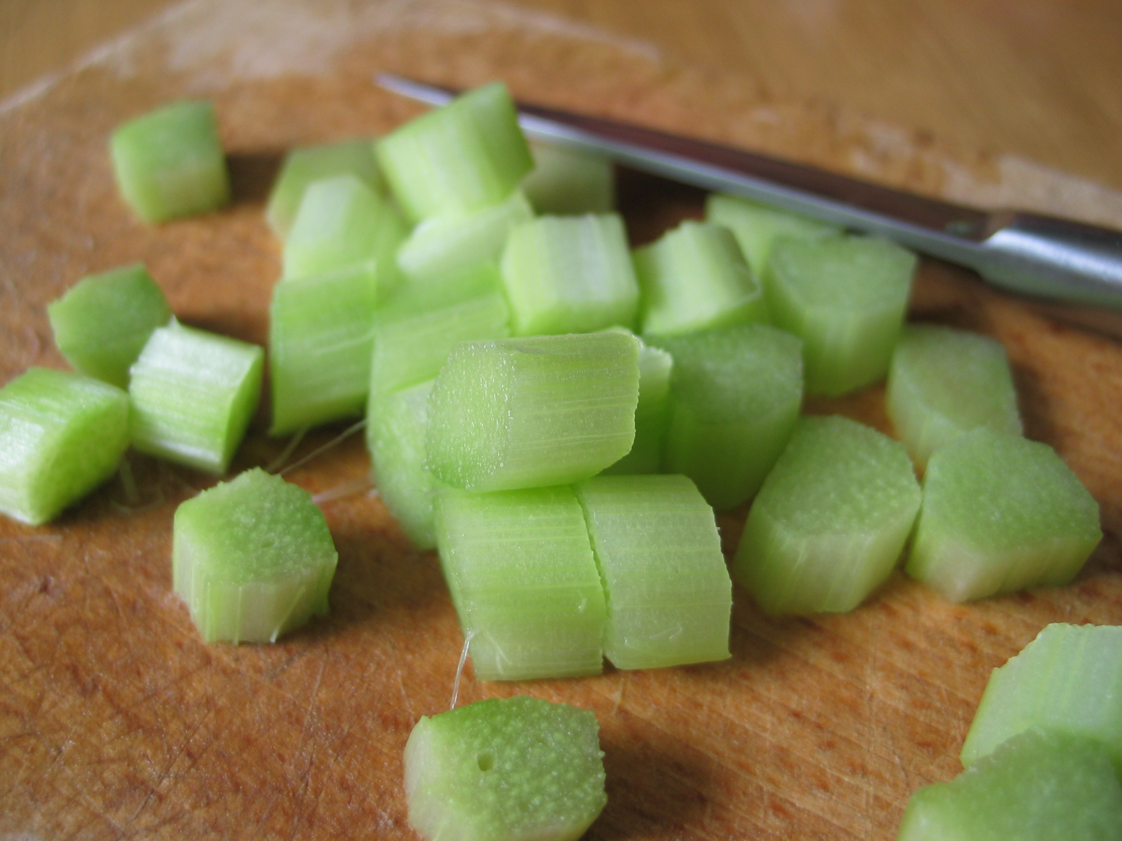 Shucked and sliced up rhubarb.